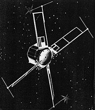 1963-038C satellite, also known as APL and Transit 5E1.